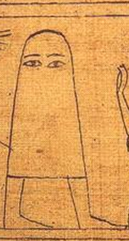 Greenfield papyrus, sheet 76, vignette of Medjed, a god in Ancient Egyptian religion, mentioned in the Book of the Dead.